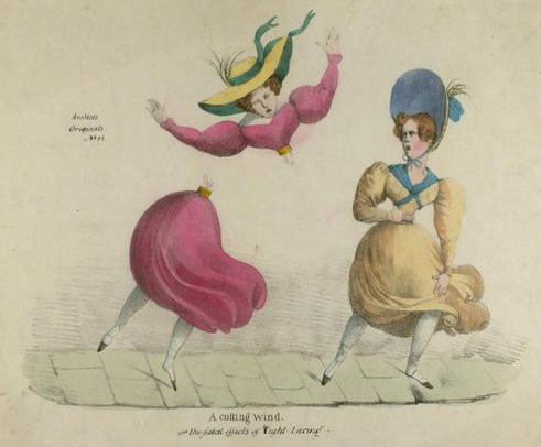 A version of File:Fatal_effects_of_tight-lacing_John_Johnson_political_&_satirical.jpg with extraneous material cropped out. See the description of that file for more details. The shelfmark of the physical item is: Fashion folder 3 (26) (film number: neg 1956 (b&w))